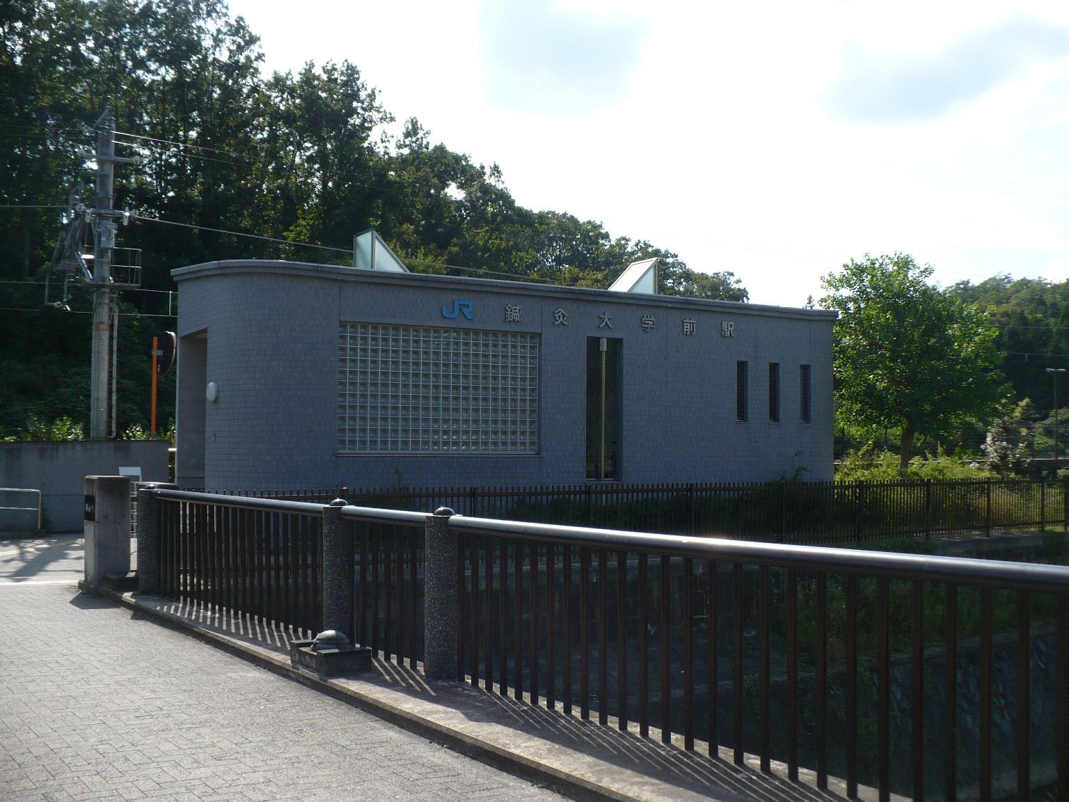 Frontview of Shinkyu-daigaku-mae station of JR West San-in main line, Nantan, Kyoto, Japan